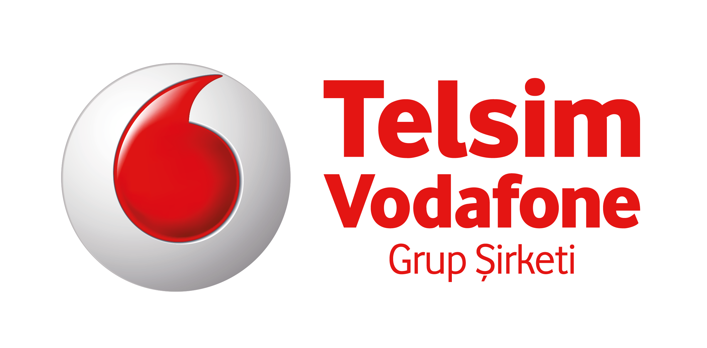 First GSM operator in Northern Cyprus